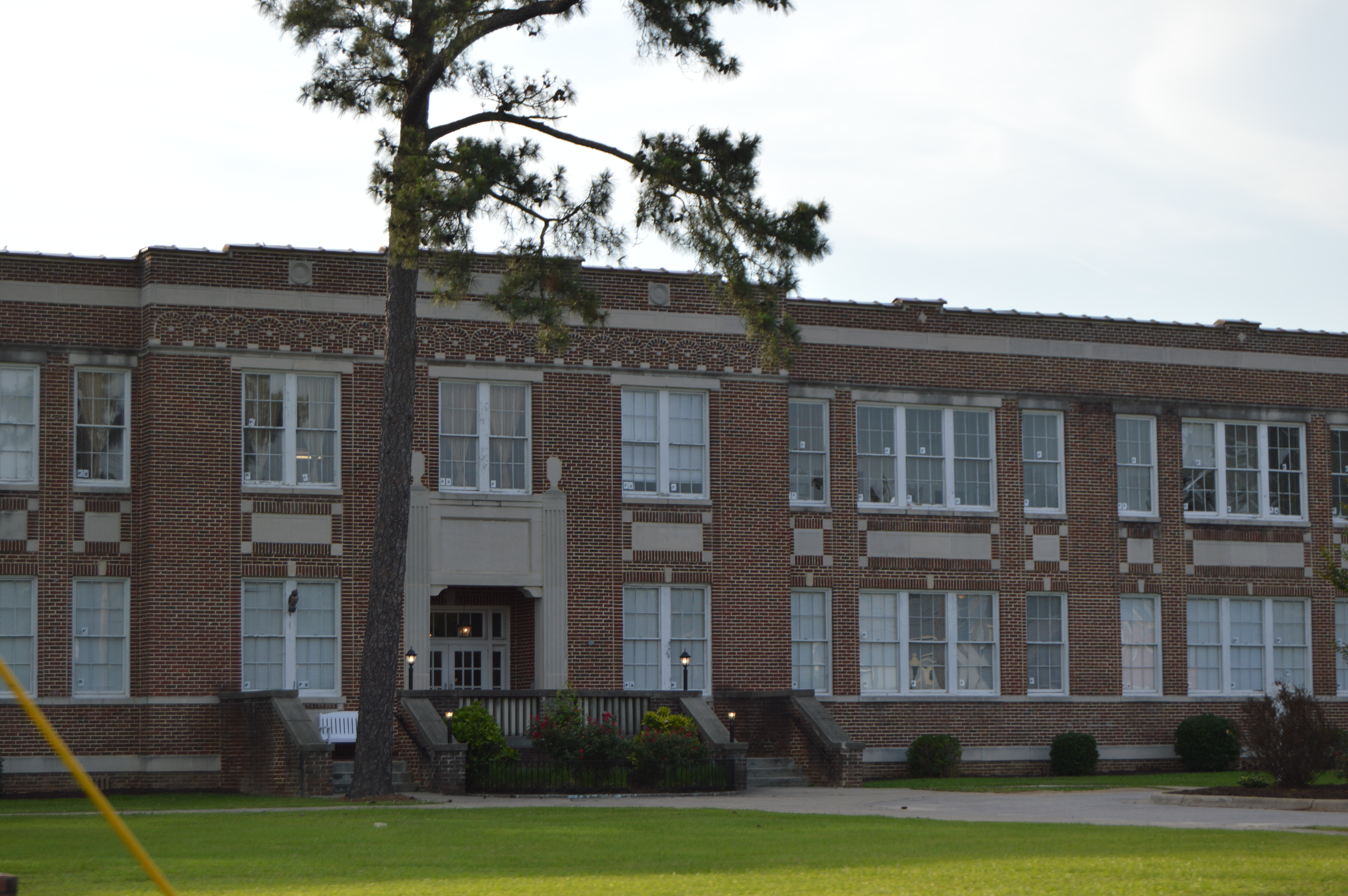 Front of Ahoski High School, located at 105 Academy Street (U.S. Route 13/North Carolina Highway 561 in Ahoskie, North Carolina, United States. Built in 1929, it is listed on the National Register of Historic Places.